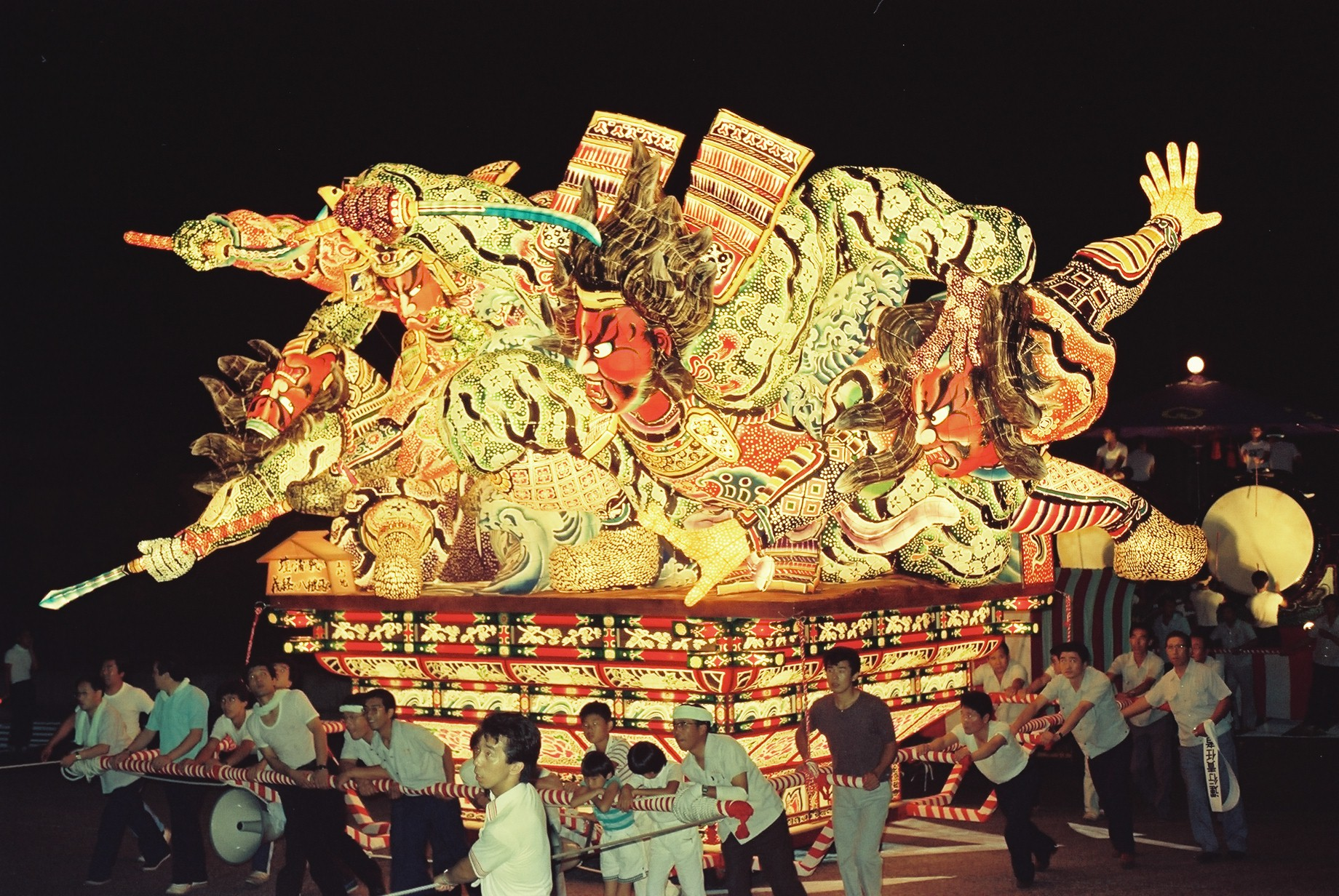 Hirosaki NEPUTA